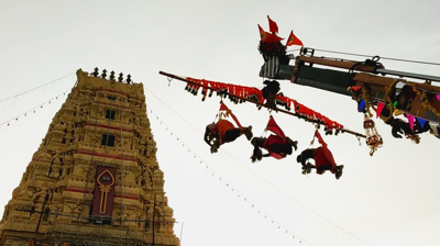 Gudivanka Subramanyaswamy Temple